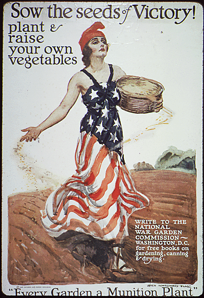 World War I era US poster by James Montgomery Flagg, 1918, lithograph, color; 56 x 36 cm. Columbia (female allegorical personification of the United States of America) broadcasts seeds in a plowed field. Text:"Sow the Seeds of Victory! Plant and raise your own vegetables"..."Every garden a munition plant". Urging civilians to raise their own food to free up resources for the war effort.